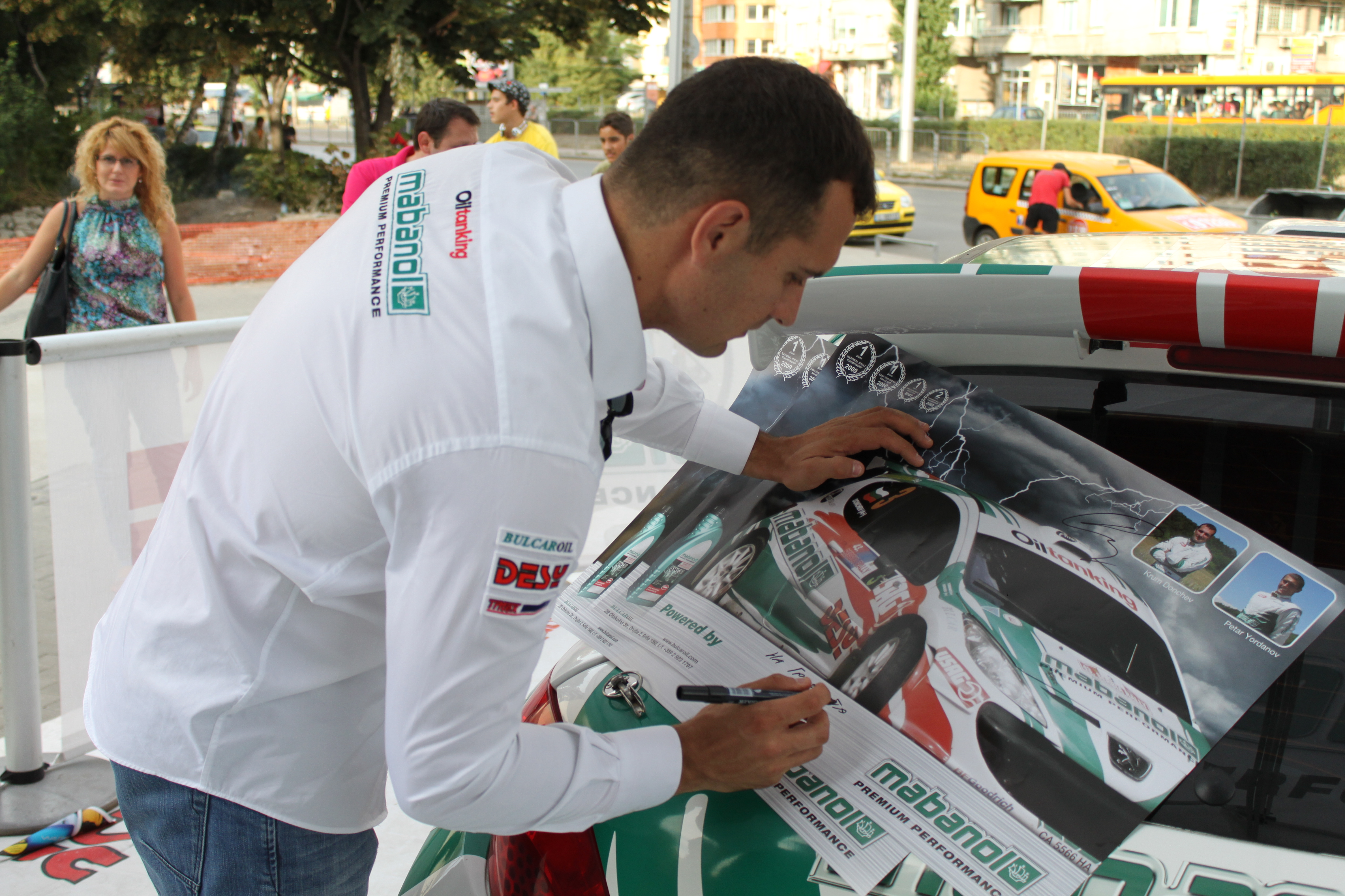 Krum Donchev in the racecars show, Mall Serdika Center, Sofia, Bulgaria